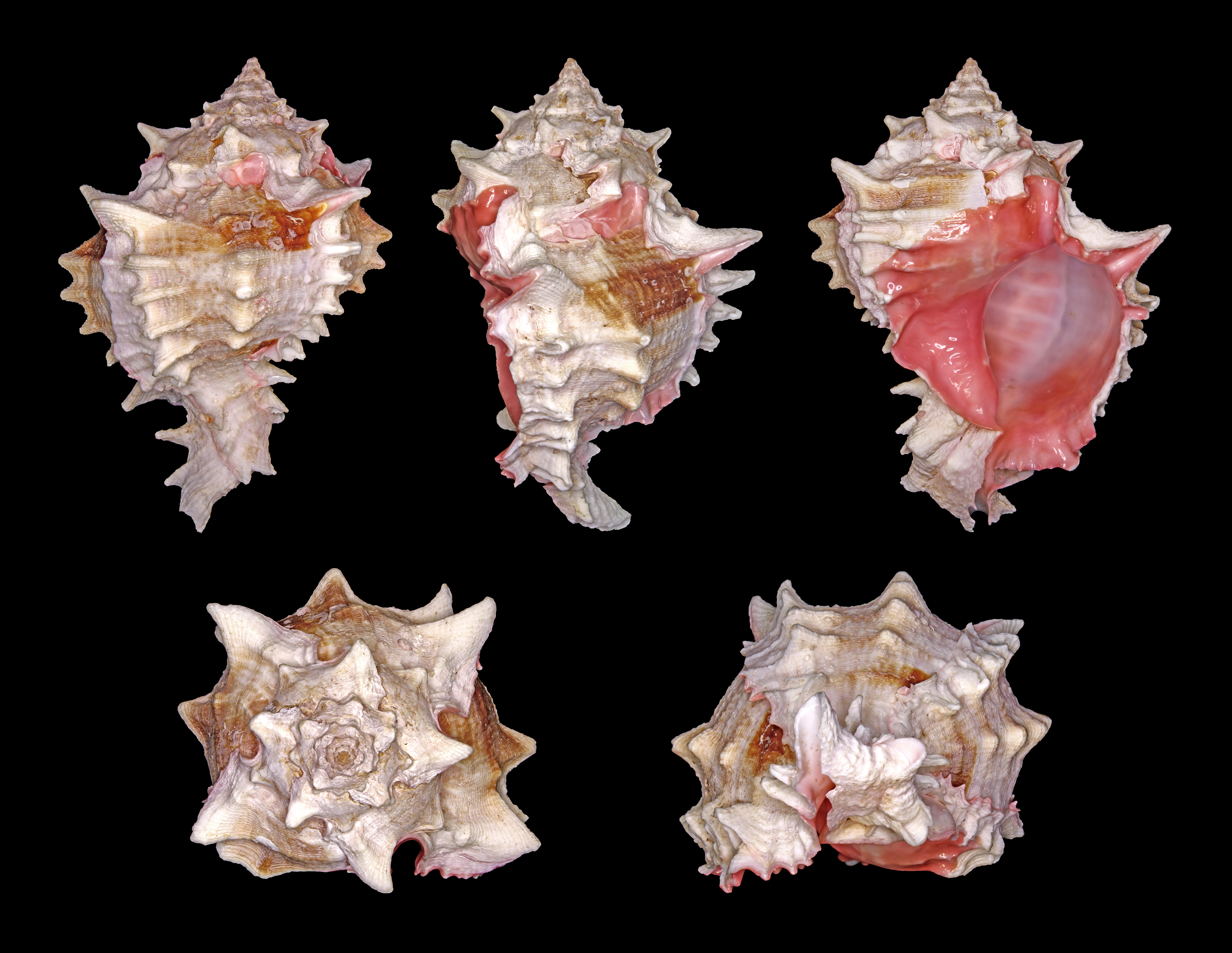 synonym: Chicoreus erythrostomus, Pink Mouthed Murex; Length 9.5 cm; Originating from the East Pacific (Region from California to Peru); Shell of own collection, therefore not geocoded. Dorsal, lateral (right side), ventral, back, and front view.